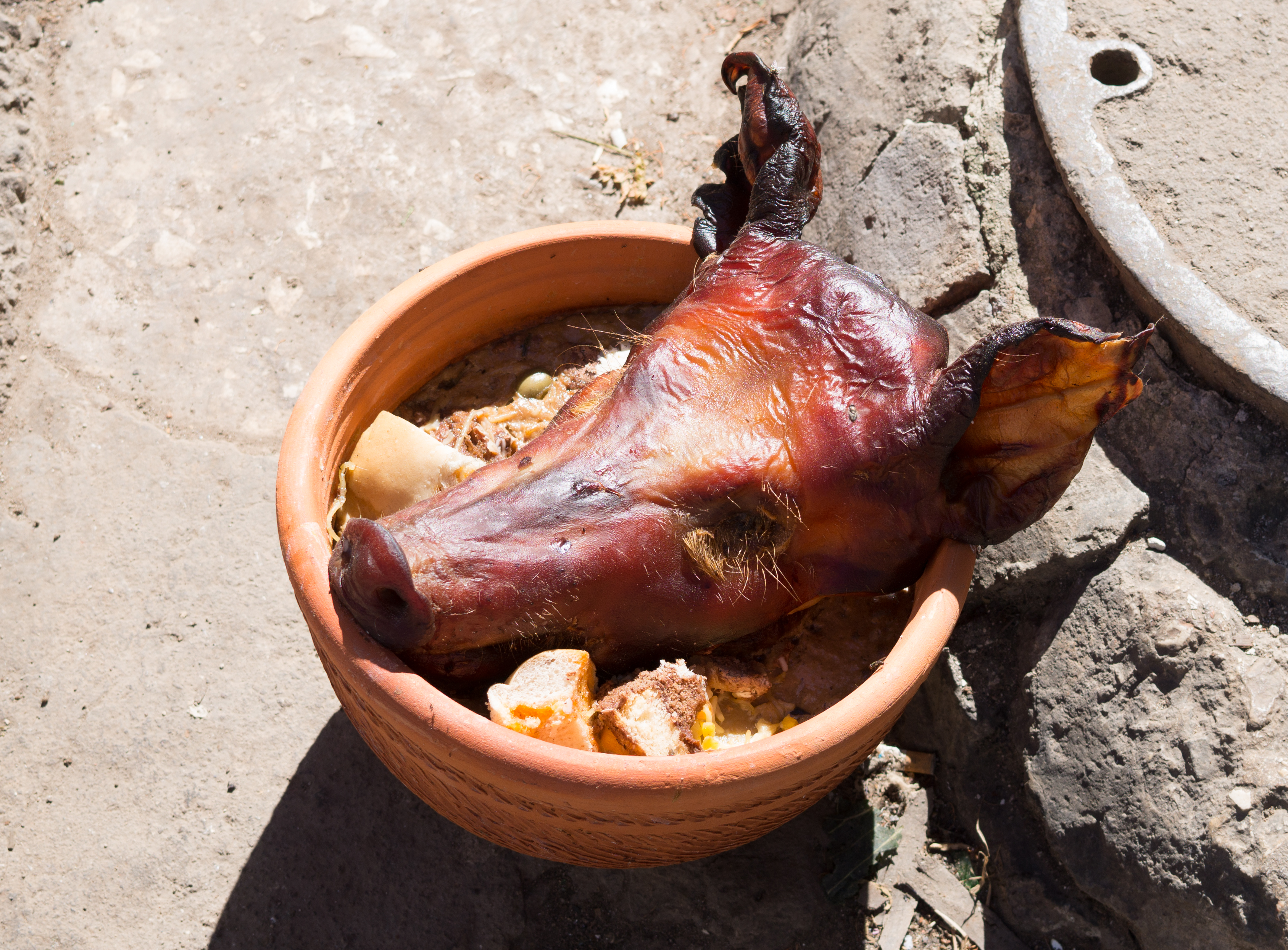 Head of a domestic pig, Sus scrofa domestica, placed in a street in Havana, Cuba